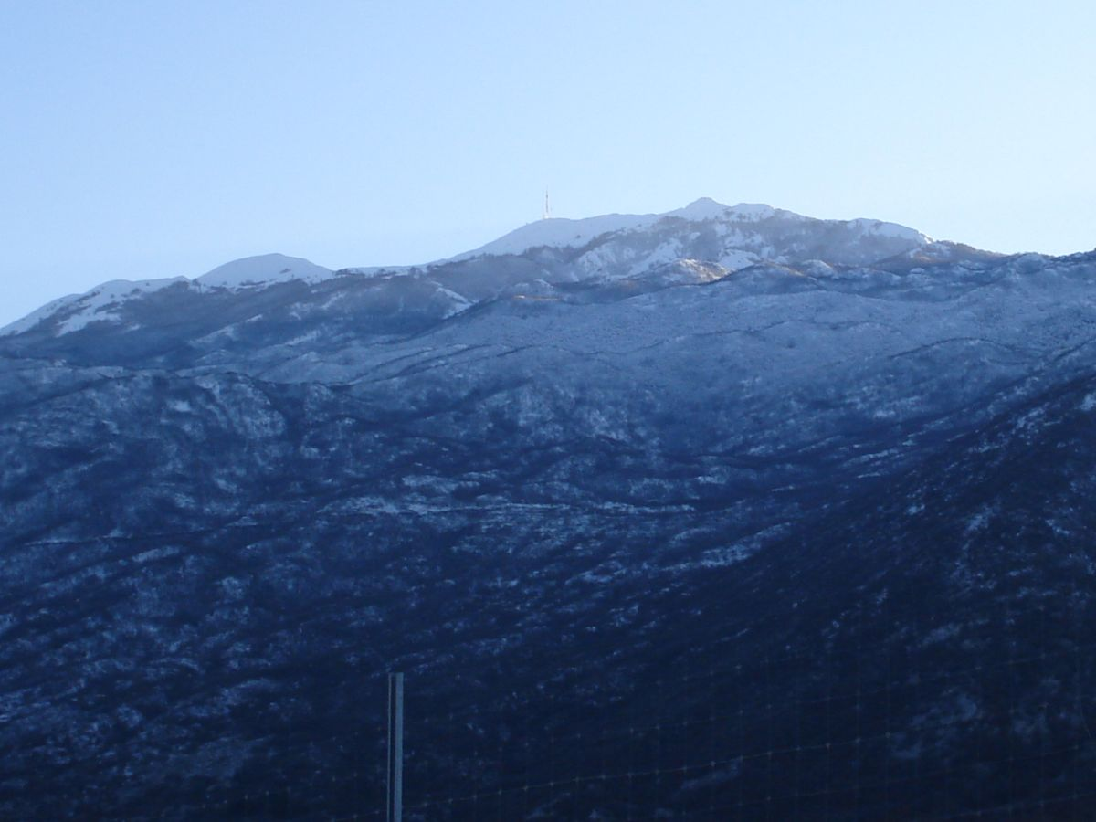 A view of Sveti Jure (Saint George), the highest peak of Biokovo mountain, from the A1 Highway.